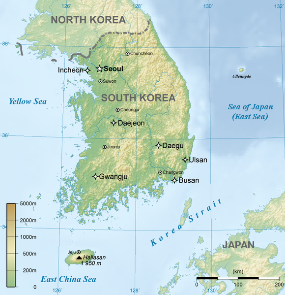 General map of South Korea. Names used as given in Wikipedia:Naming conventions (Korean)